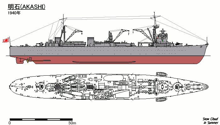 Figure of AKASHI 1940, repair ship of Imperial Japanese Navy.